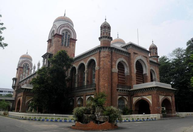 The Senate House is the administrative centre of the University of Madras in Chennai, India. It is situated in Wallajah Road, along Marina Beach. Constructed by Robert Chisholm between 1874 and 1879